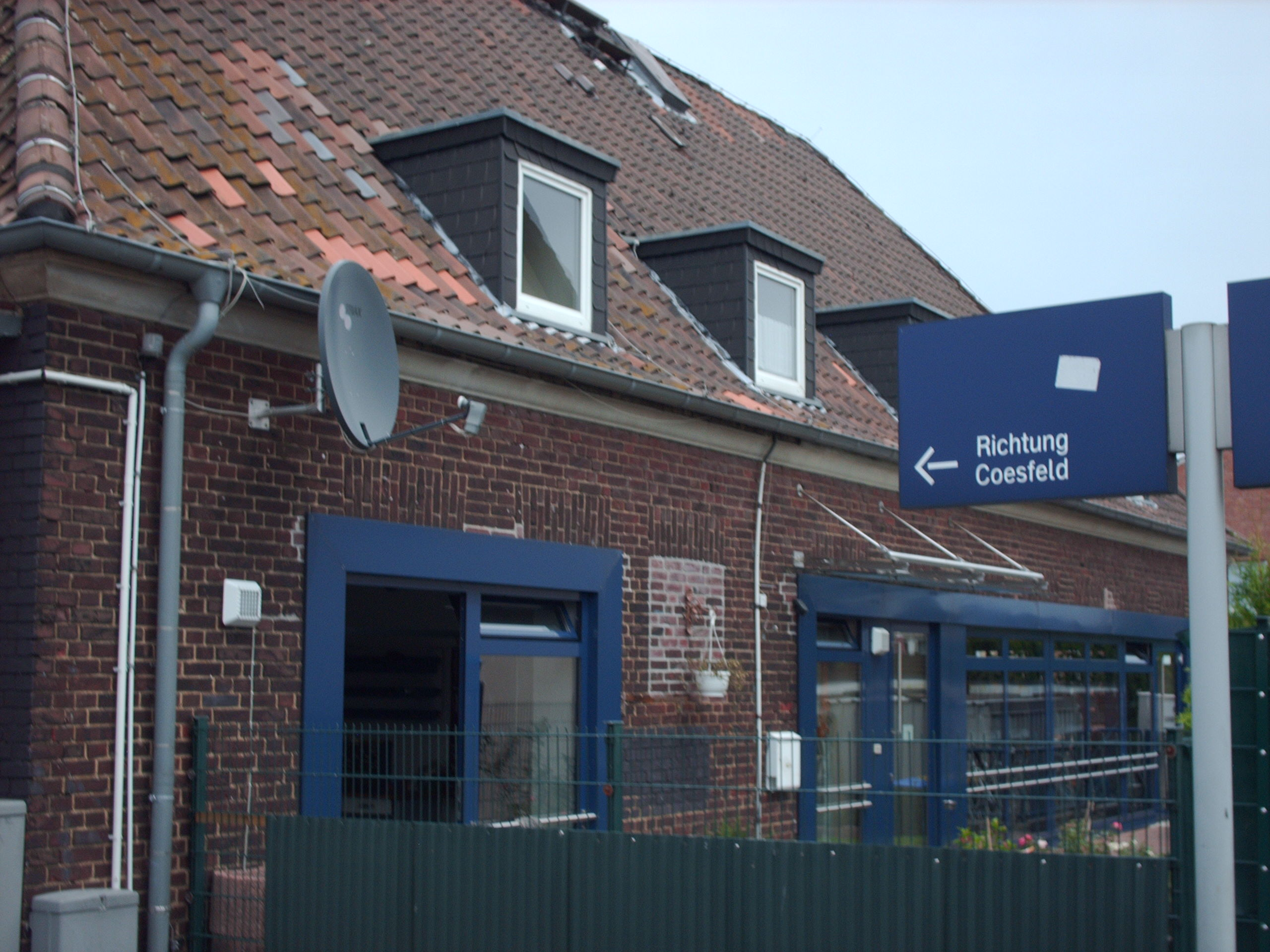 Selm-Beifang station, Selm, Germany check usage